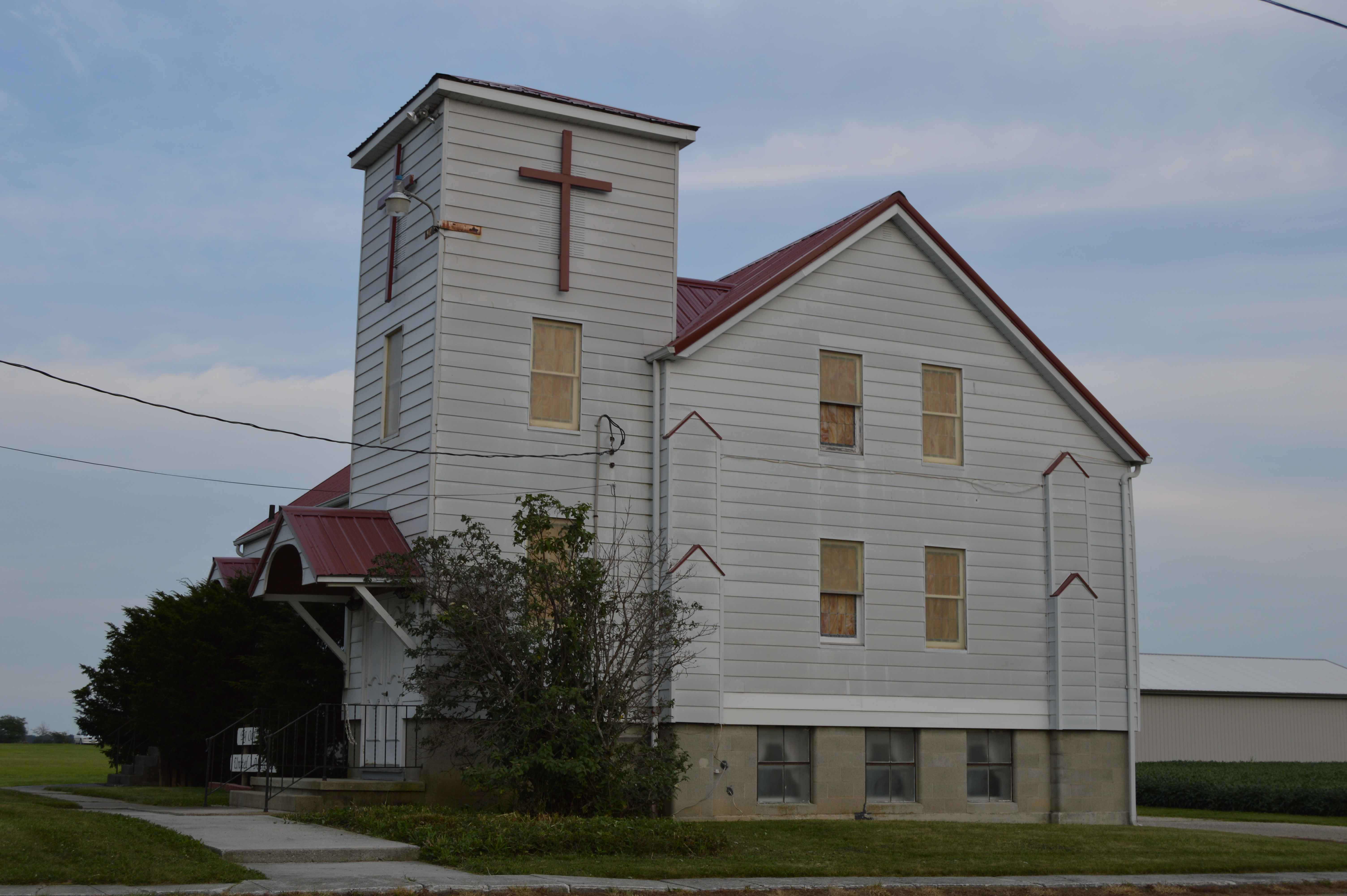 Front of the Big Oak Methodist Church, located at the junction of County Roads 330 (the Lincoln Highway) and 81 in Richland Township, Wyandot County, Ohio, United States. It was built in 1949 following a severe fire in the previous building.